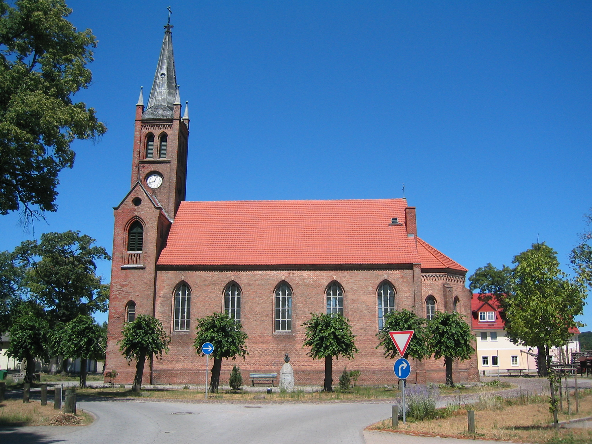 Southern view of Marienwerder (Brandenburg) church, Barnim district, Brandenburg state, Germany